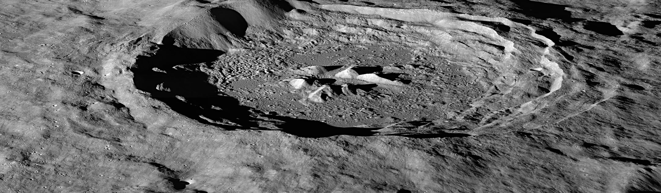 LRO image of the moon's Hayn crater, located just northeast of Mare Humboldtianum, dramatically illuminated by the low Sun casting long shadows across the crater floor.